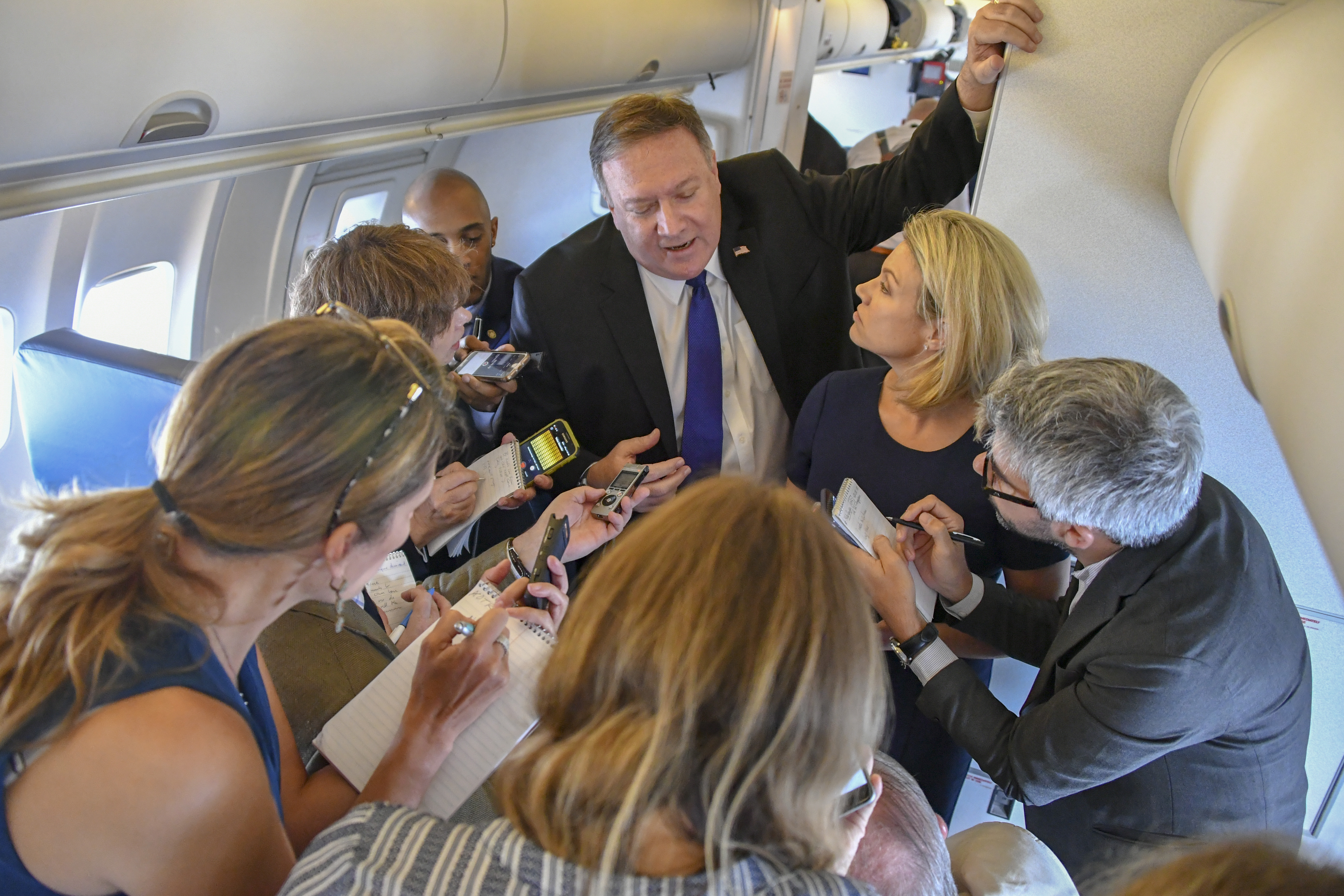 Secretary Michael R. Pompeo conducts airborne questions and answers with the traveling press en route to Singapore August 3, 2018.